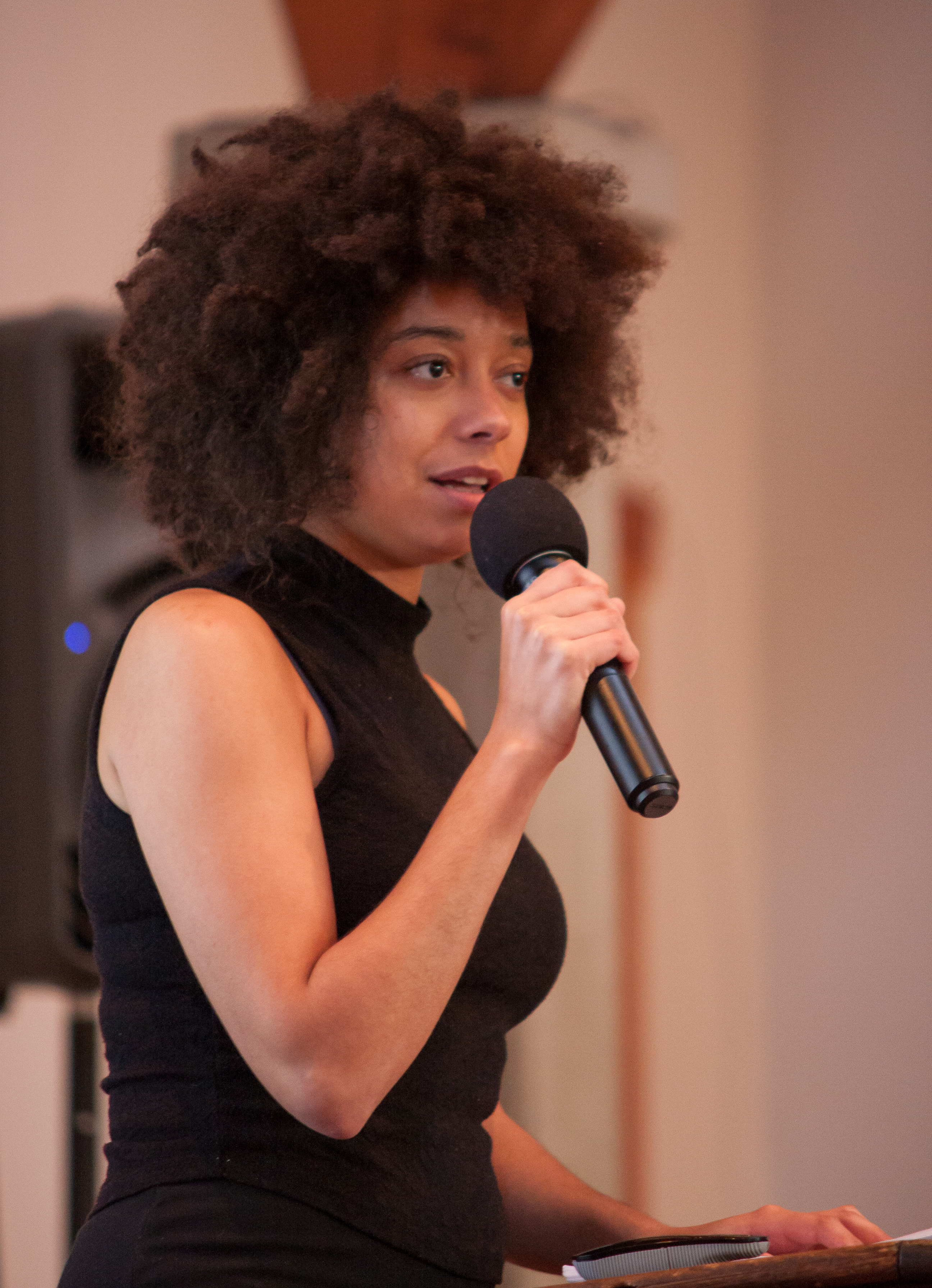 Aph Ko speaks at the Intersectional Justice Conference at the Whidbey Institute, March 2016.